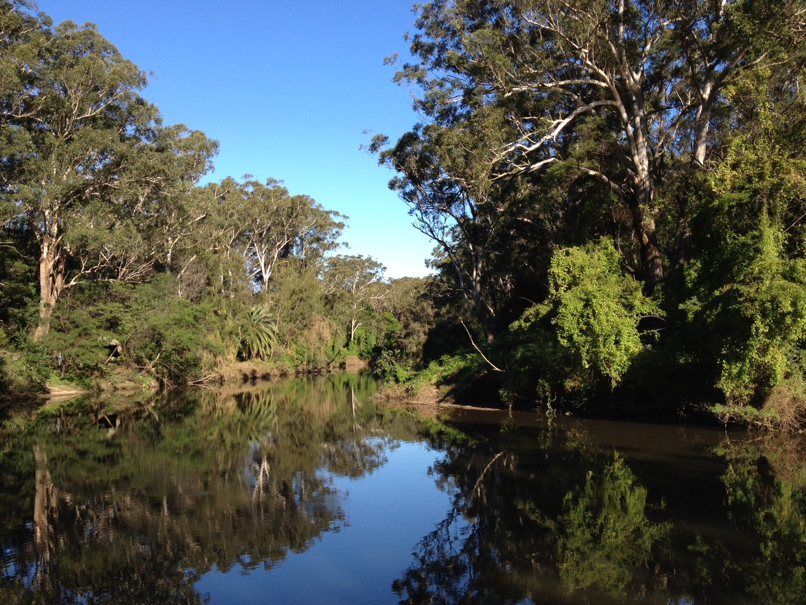 View of the Lane Cove River in the Lane Cove National Park from the Great North Walk on a clear autumn day, Sydney